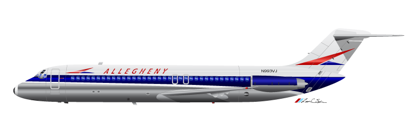 Allegheny Airlines Douglas DC-9-30